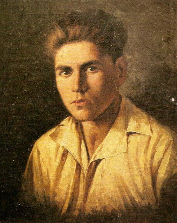 Youthful portrait of painter Angelos Kontis